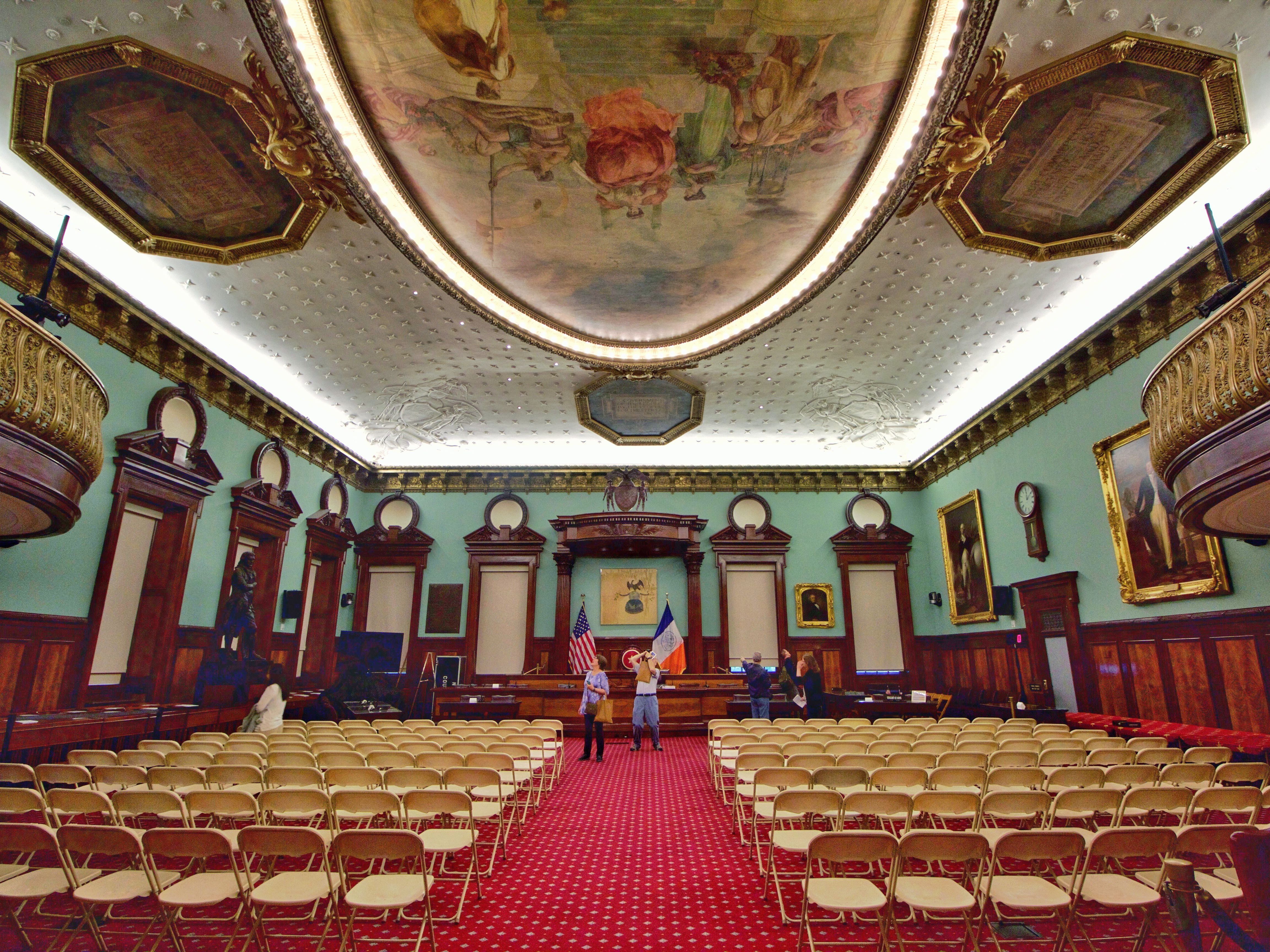 Site: New York City Hall